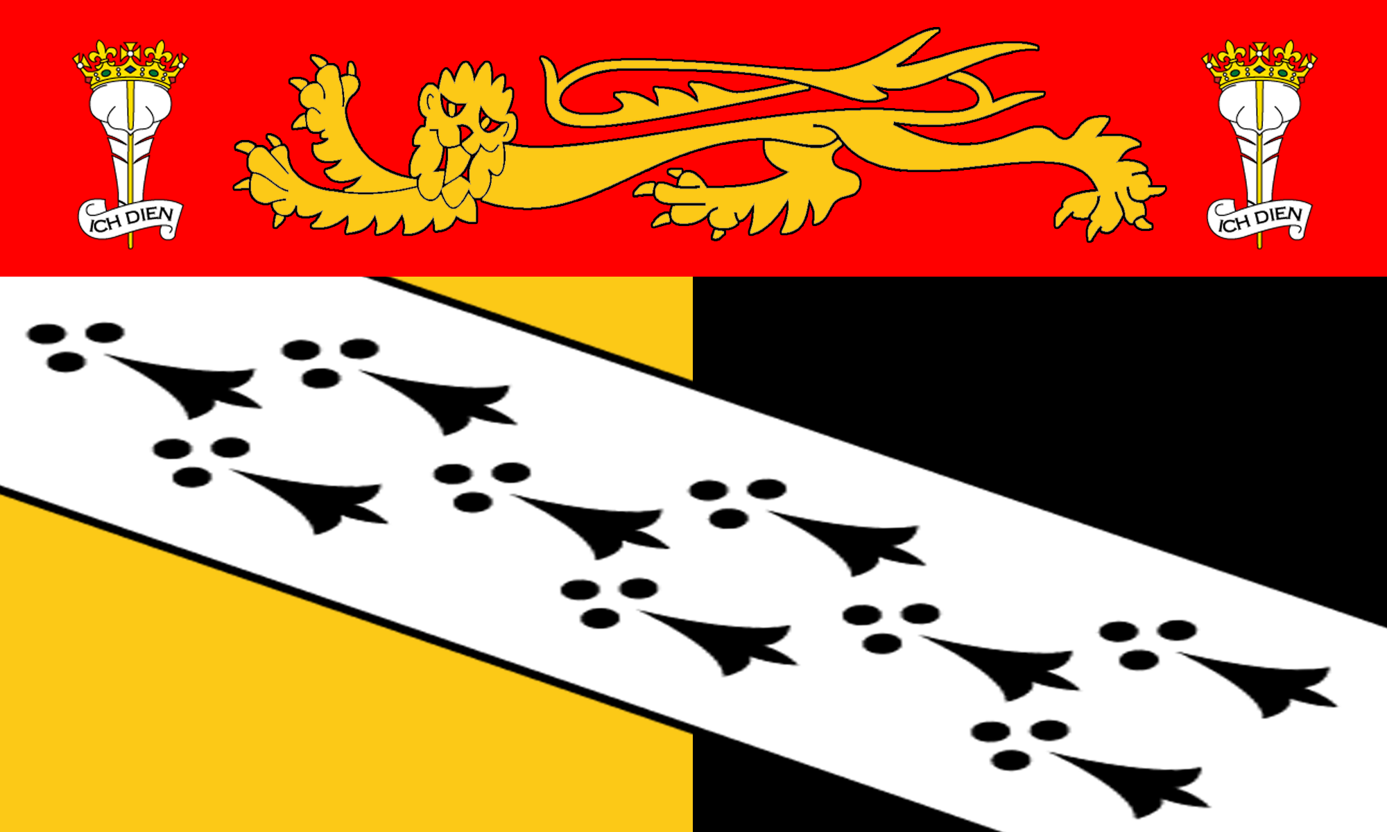 The County Flag of Norfolk, a banner of arms of Norfolk County Council.